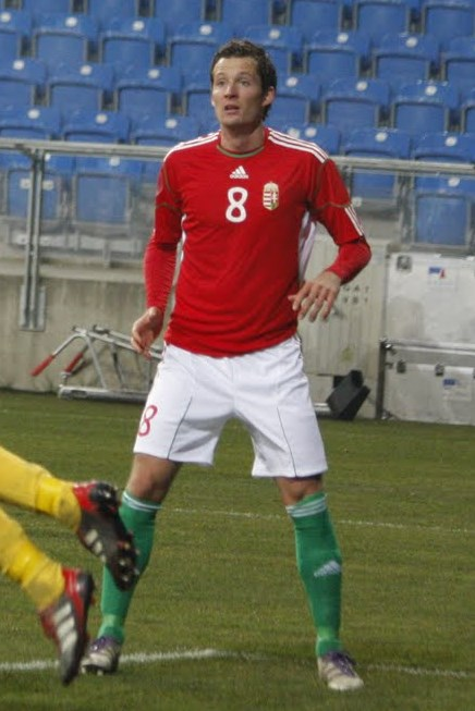 Hungarian football player Dániel Tőzsér